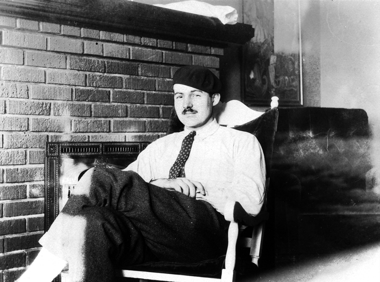 Ernest Hemingway, Paris, circa 1924.